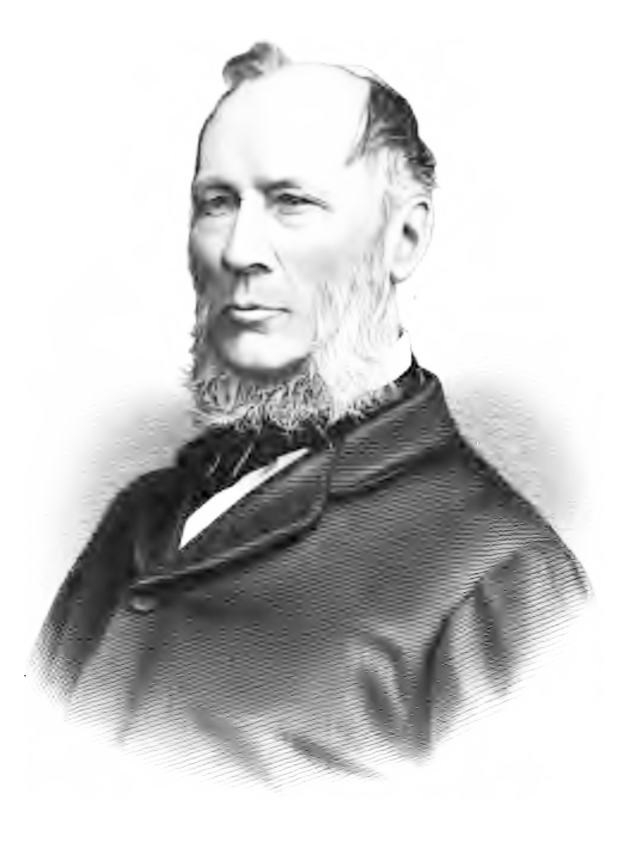 Charles Richardson, British civil engineer. Steel engraving from a photograph by Maull and Fox